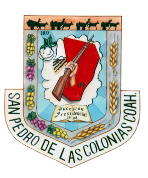 Coat of arms of the San Pedro de las Colonias Municipality